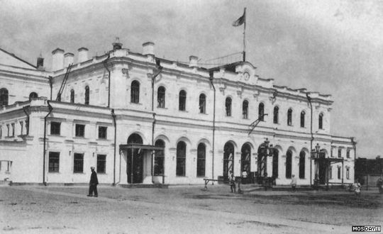 Yaroslavl station, Moscow